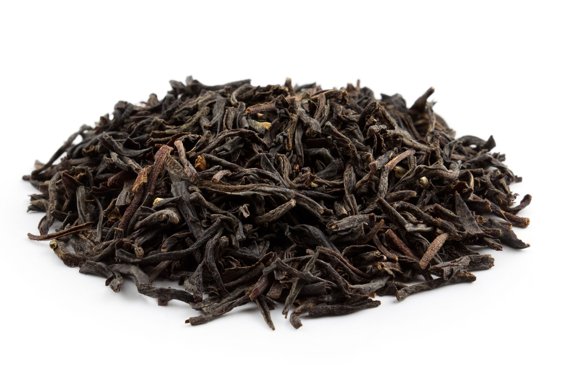 Black Tea Assam finest Grade SFTGFOP1